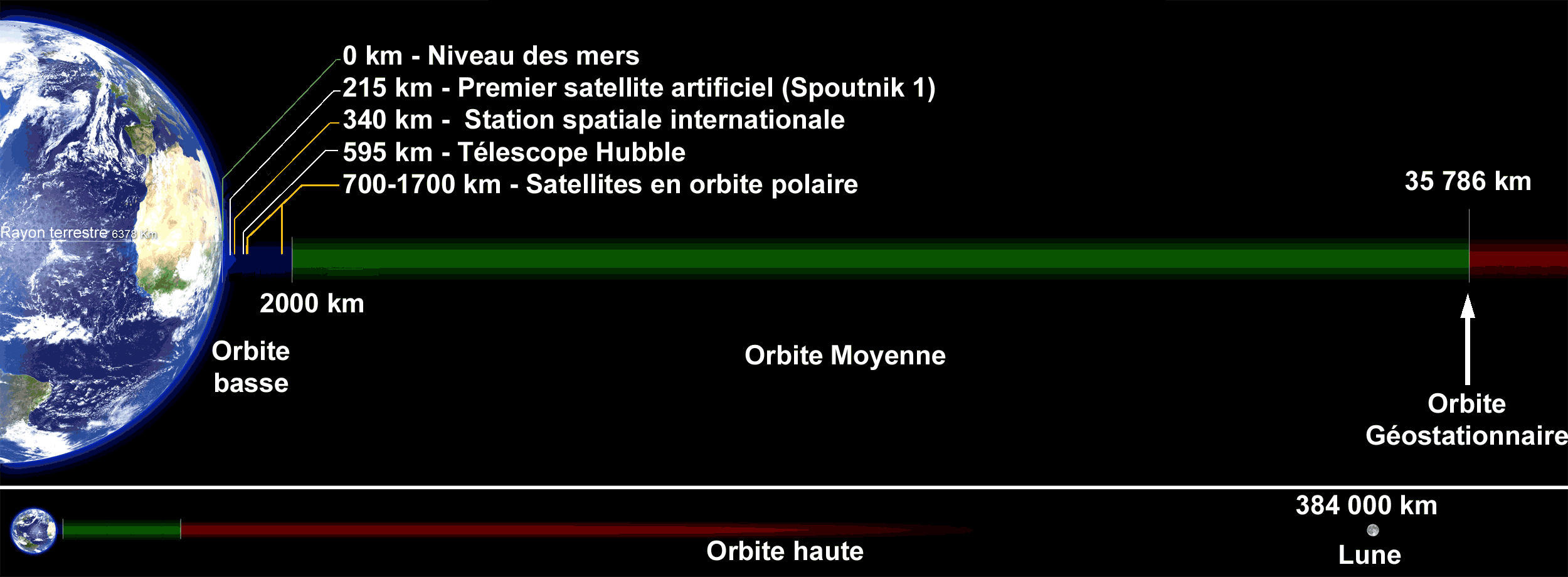 Perfect scaled diagram showing the orbital altitudes of several significant satellites of earth.